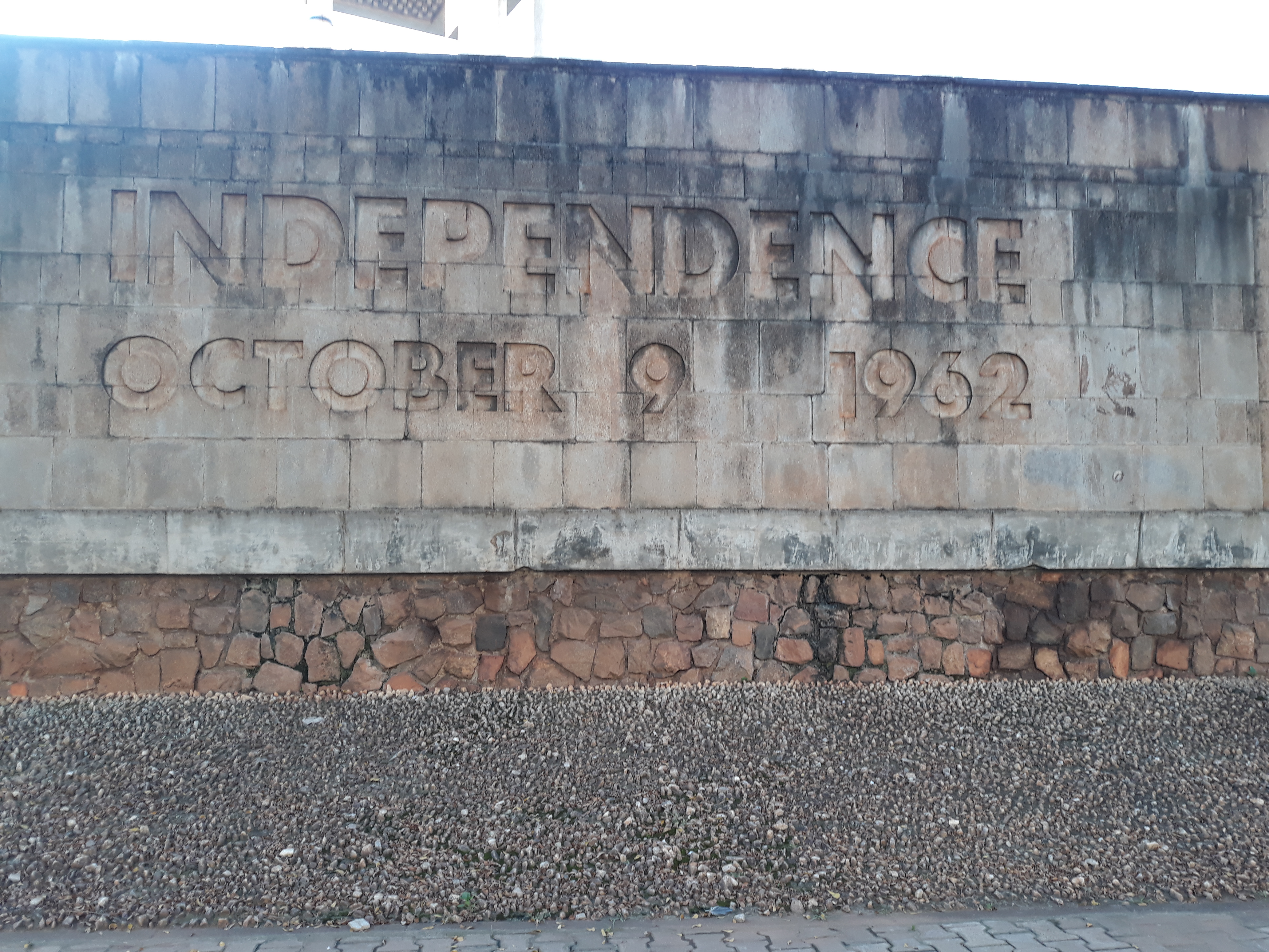 The independence day; our "National Pride" curved on the Paliament Wall to tell all Ugandans of a heritage story This is an image with the theme "Africa on the Move or Transport" from: Uganda